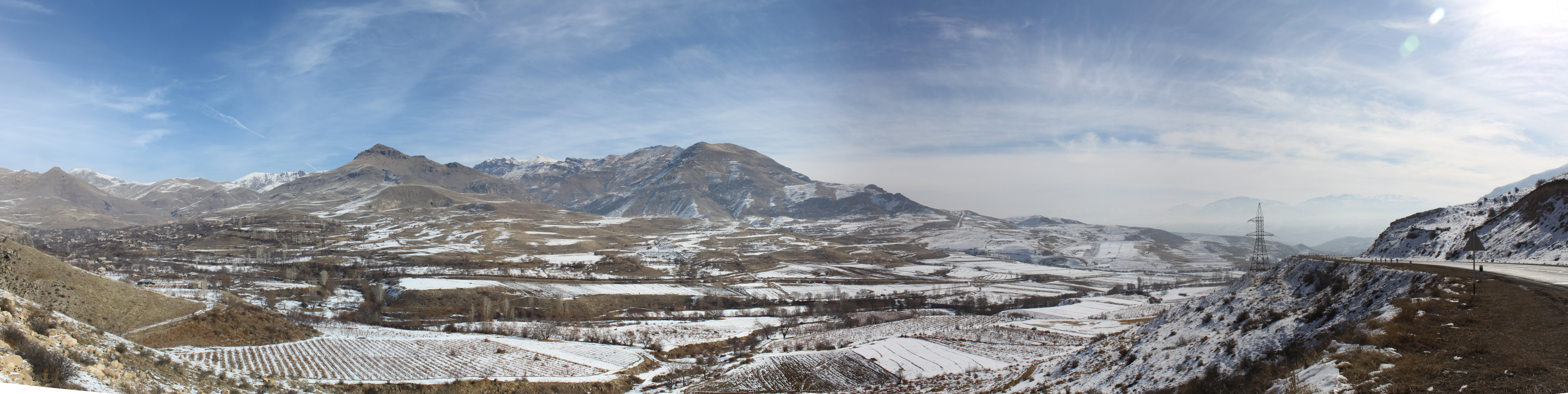 Panorama of Yelpin, Armenia from Armenia's main north-south highway linking Yerevan to the Vayots Dzor region and beyond. Further south along the road is the town of Areni. Photo stitched from 4 frames using Hugin 2010.2.0